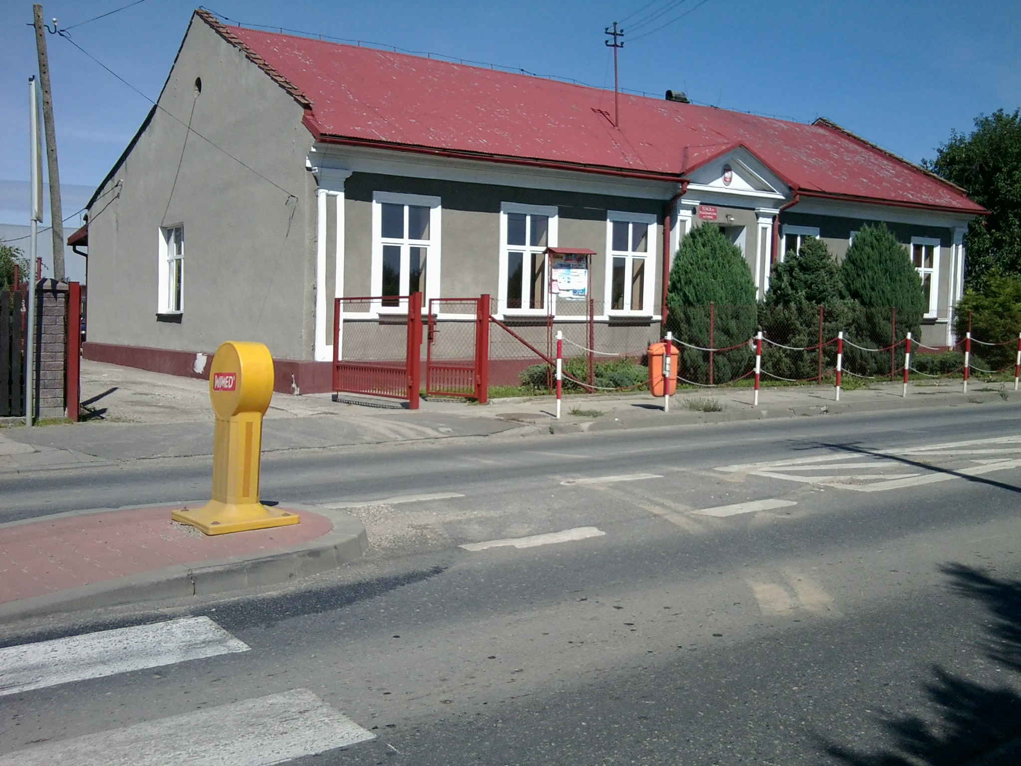 Primary School in Stadła